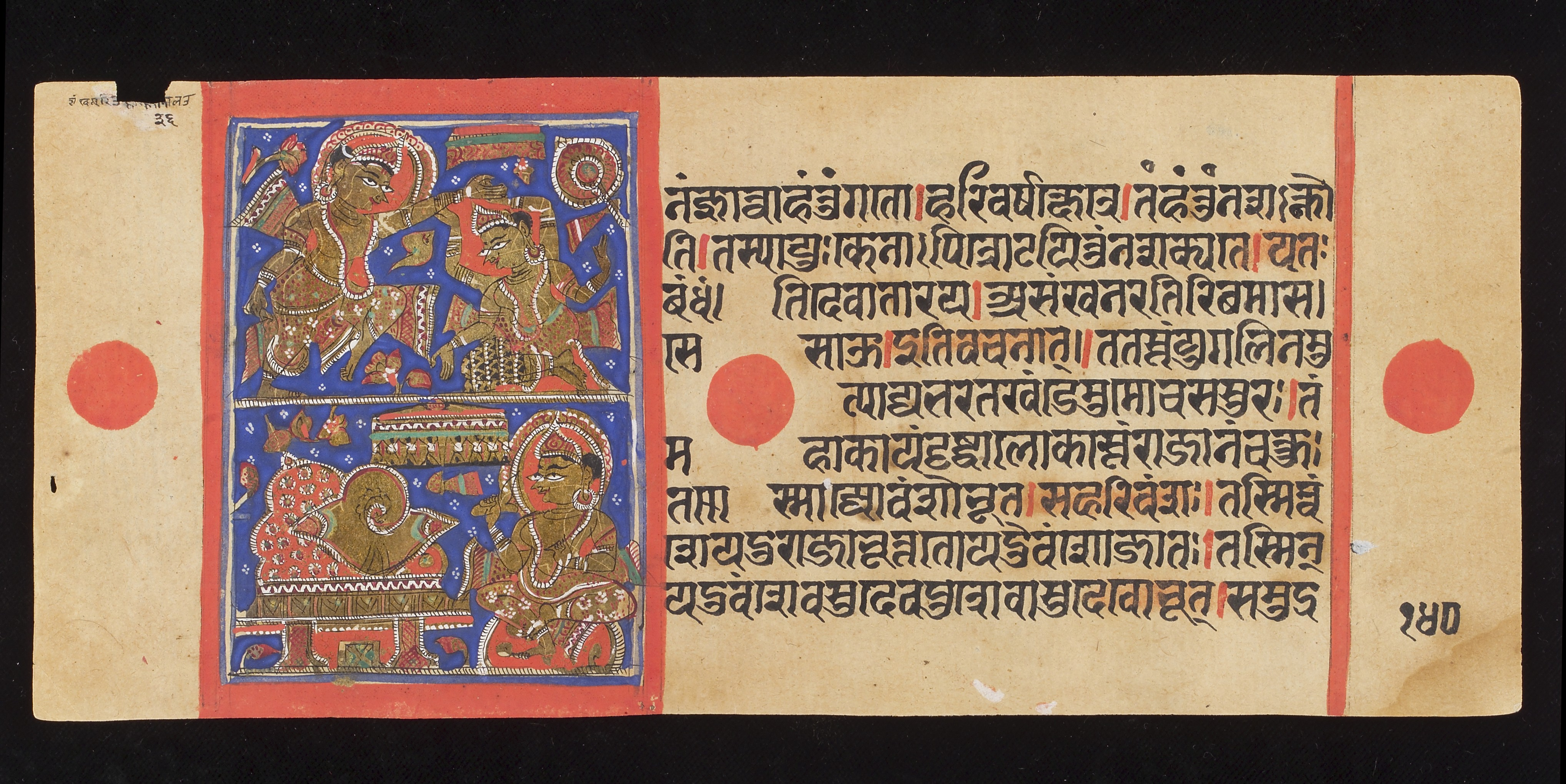 The Kalpasutra (the heroic deeds of the conquerors) a Prakrit Manuscript dated 1503. Minature Wellcome Images Keywords: Jainism; Religion; India; miniatures; ORIENTAL; Jinas